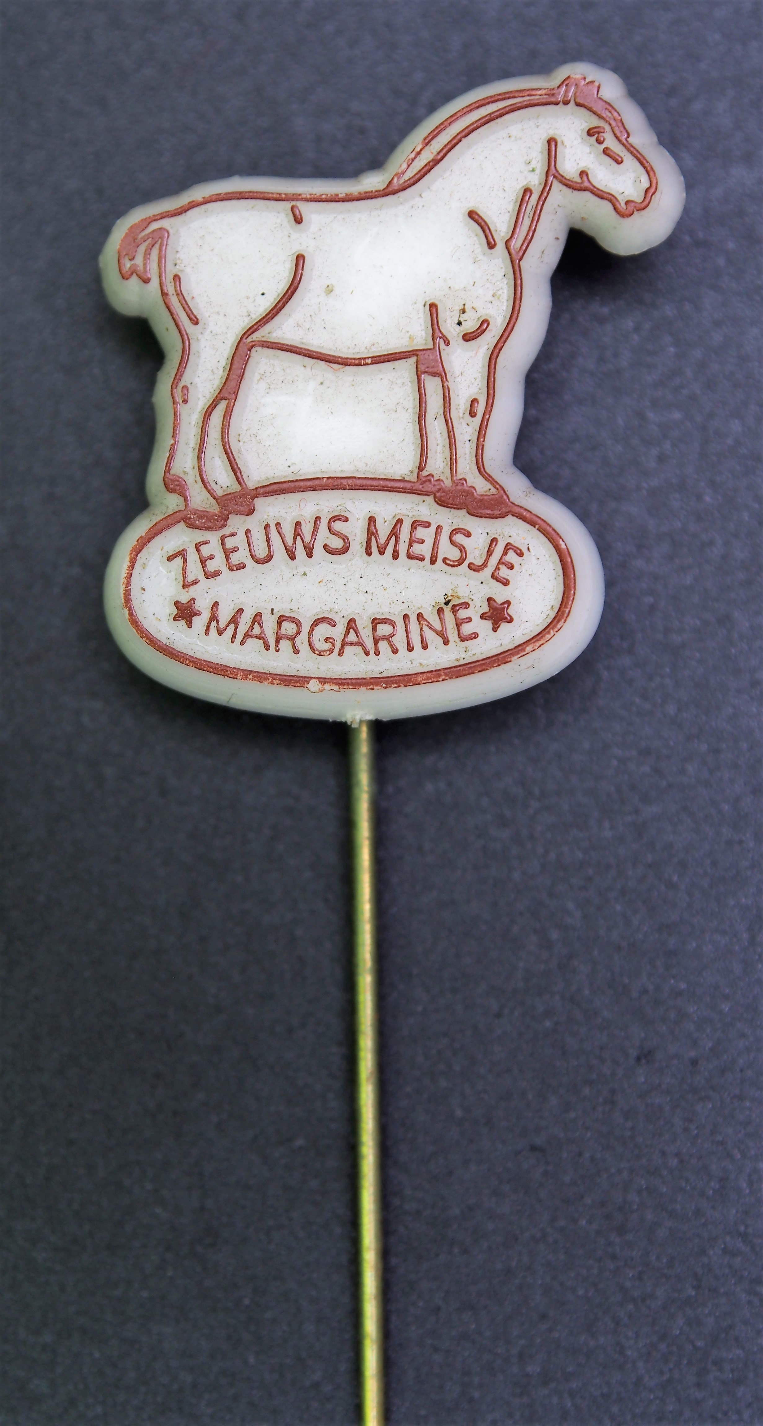 Advertising pin of an old (Dutch) product or brand.